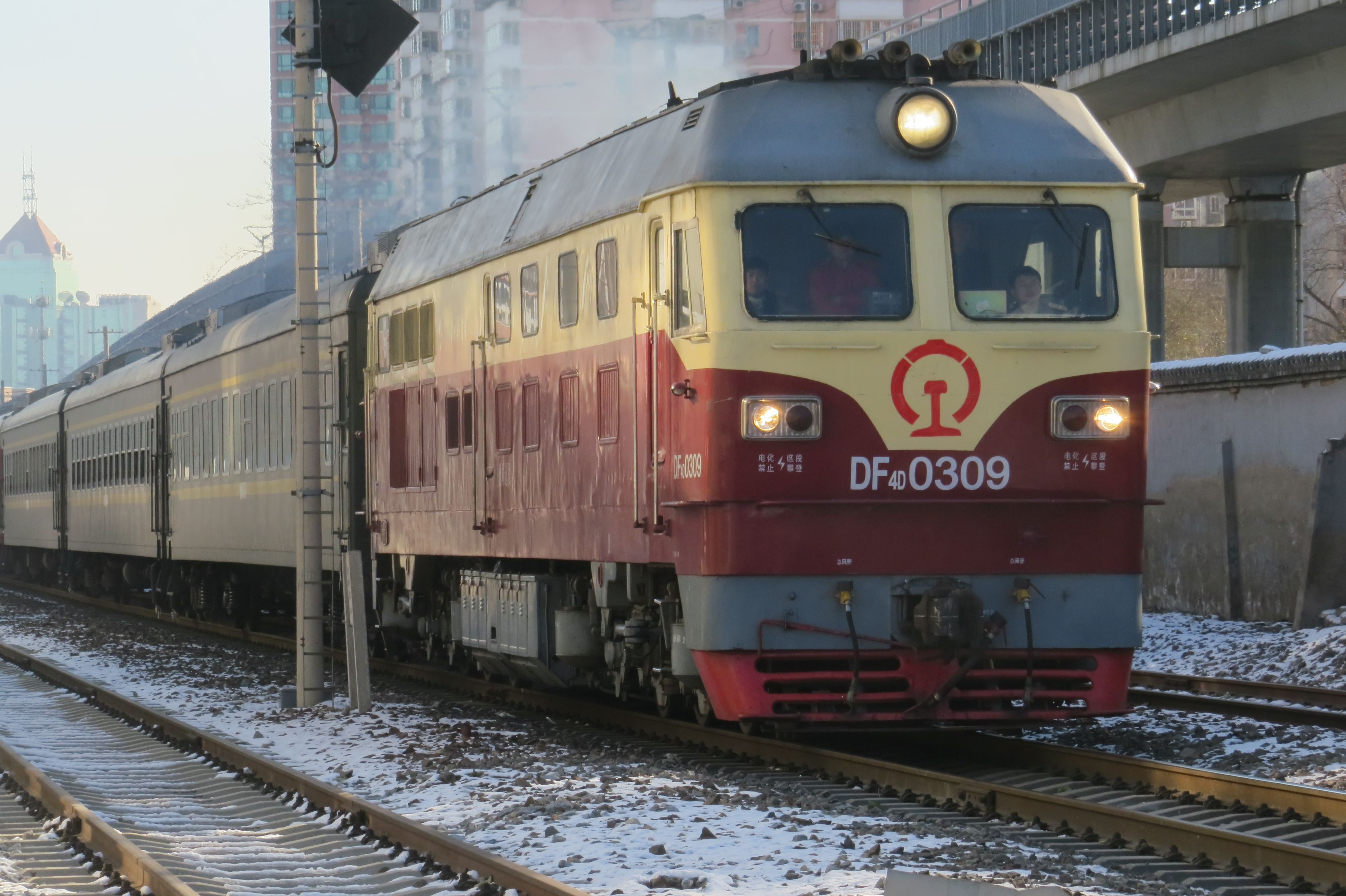 1801 to Qiqihar. This tiger is based in Tongliao Locomotive Depot, Shenyang Railway Bureau.